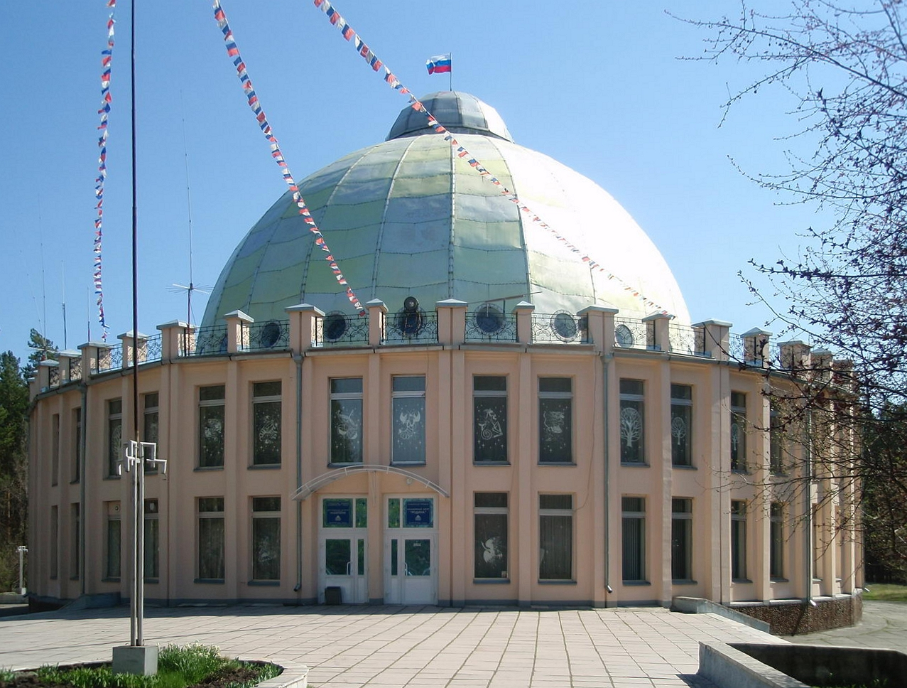 Kupol